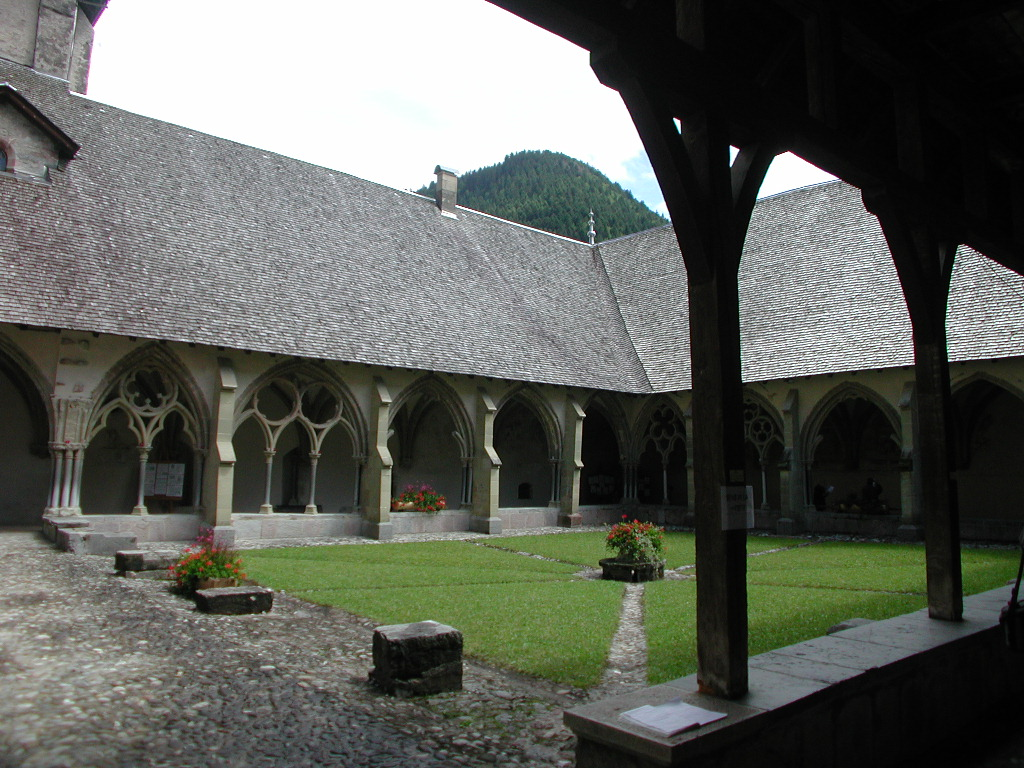 Abondance (Haute-Savoie, Rhône-Alpes, France) : Cloister of the abbey.